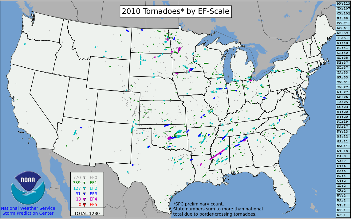 Tracks of all tornadoes in the United States in 2010 by their EF-ranking